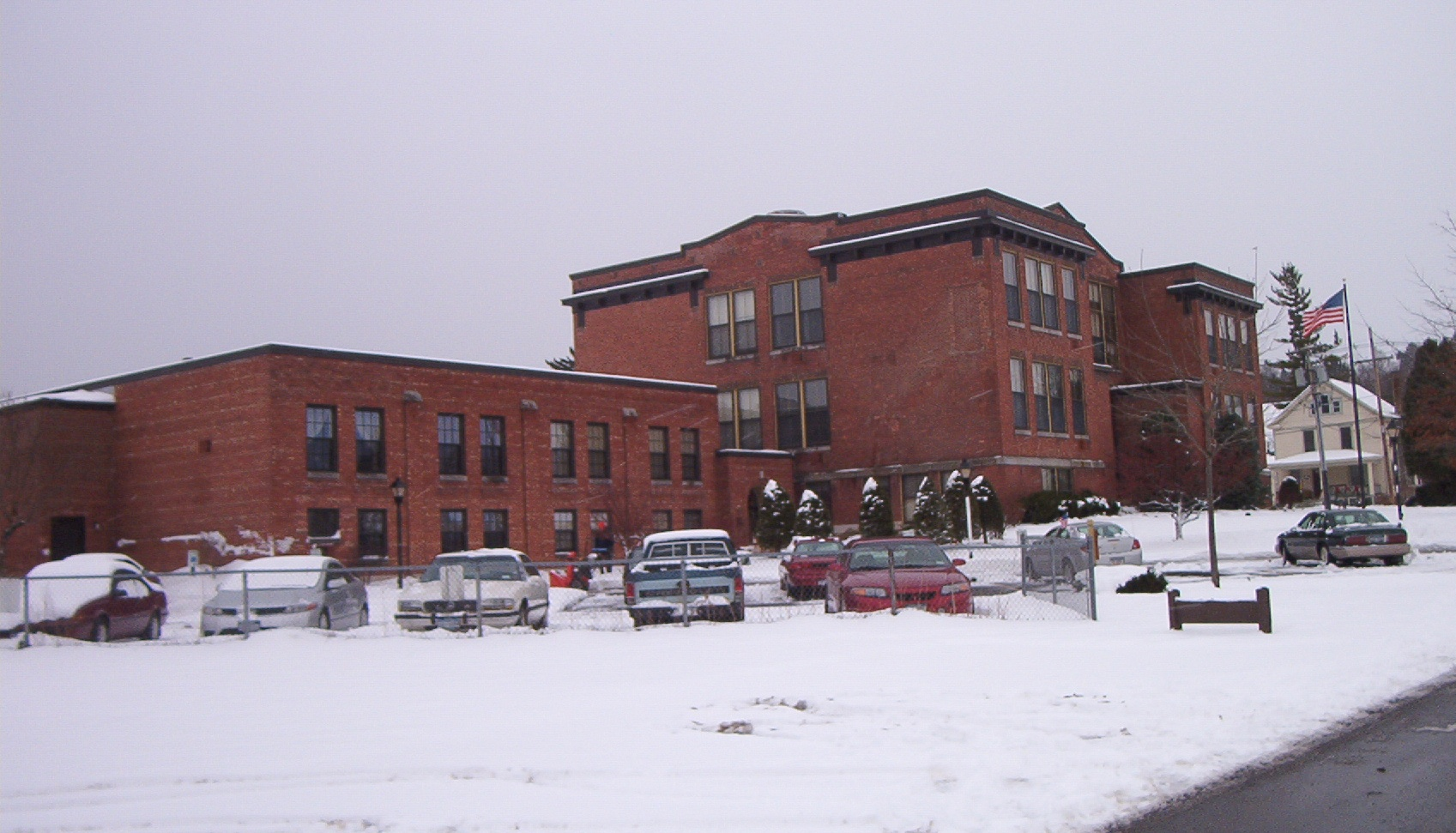 Camillus Union Free School with extension